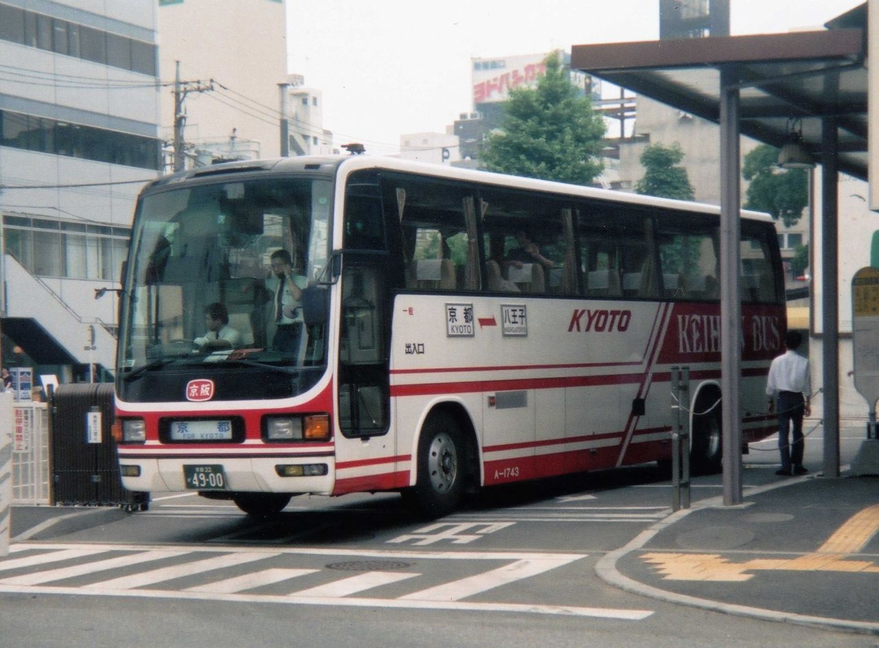 Keihan Bus A-1743 Mitsubishi P-MS729SA at Hachioji Highway Bus Terminal